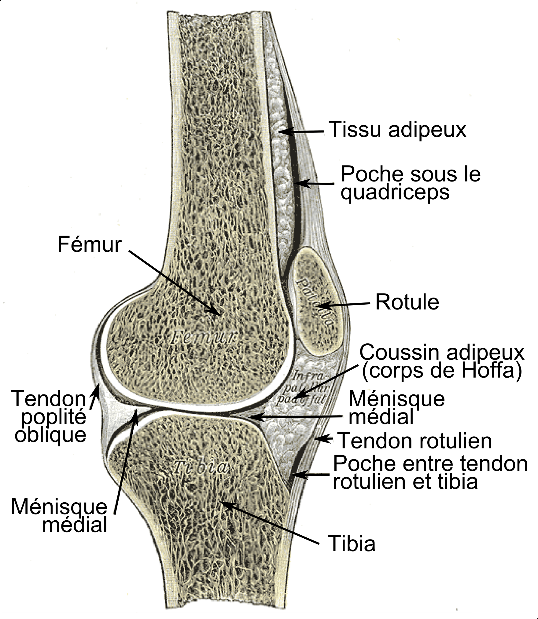 Plate 350 of Gray's Anatomy, with french-translated references